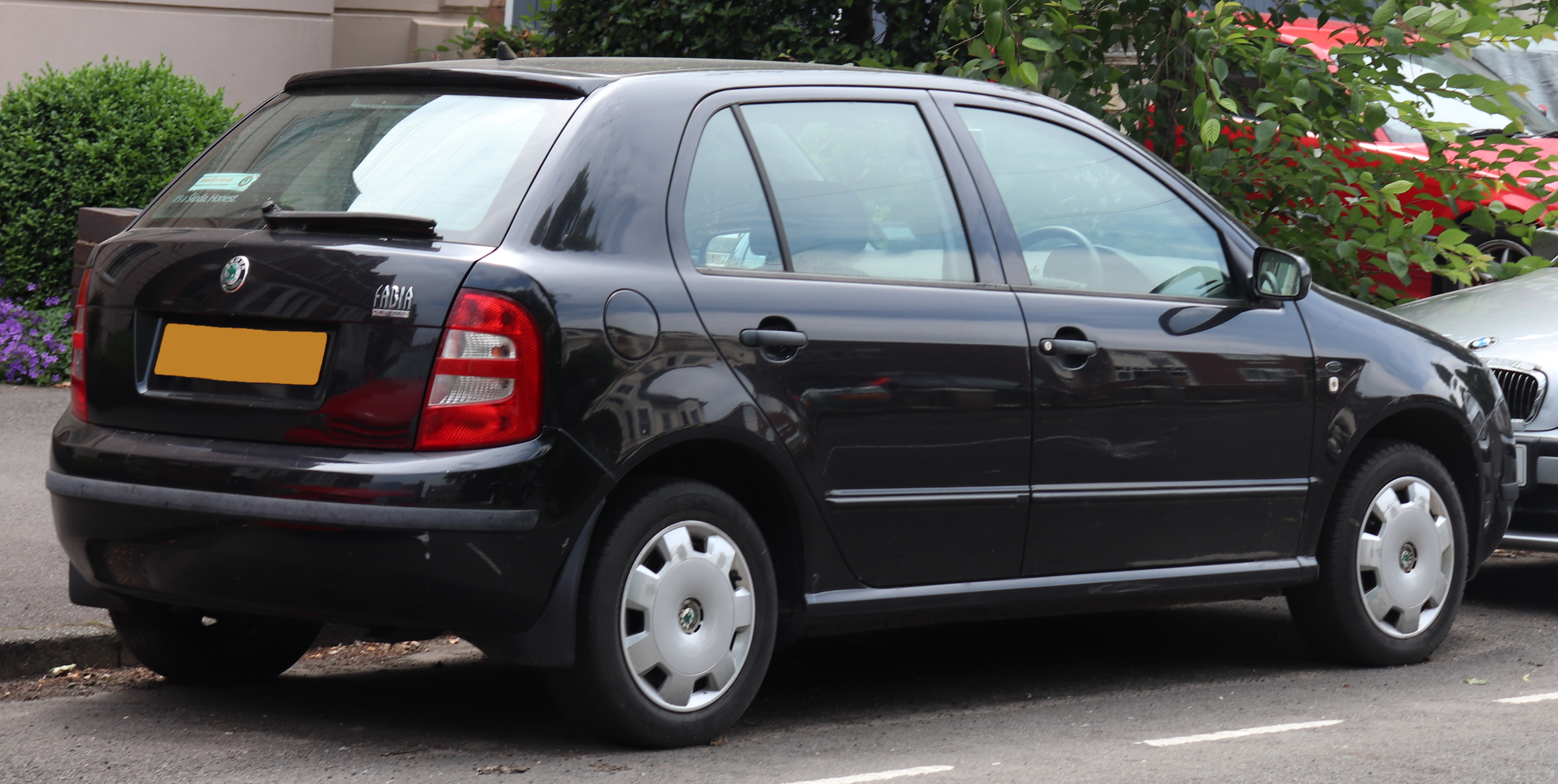 2001 Skoda Fabia Comfort 8V 1.4 Rear Taken in Leamington Spa